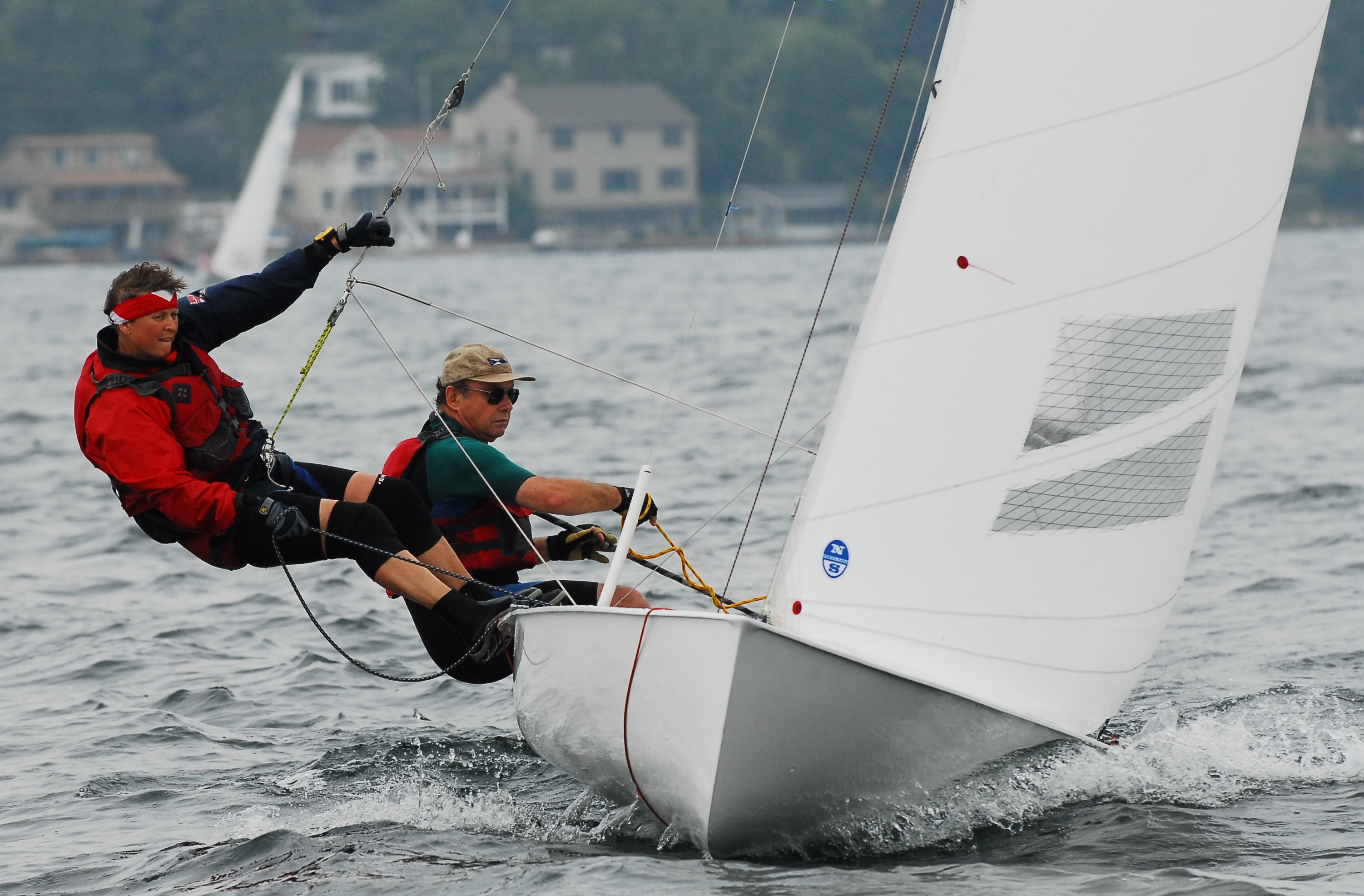 "Flying Dutchmans sailing on the first day of the 2008 Cannonball Regatta held at the Canandaigua Yacht Club in New York and sailed on Canandaigua Lake." (description from the photographer)